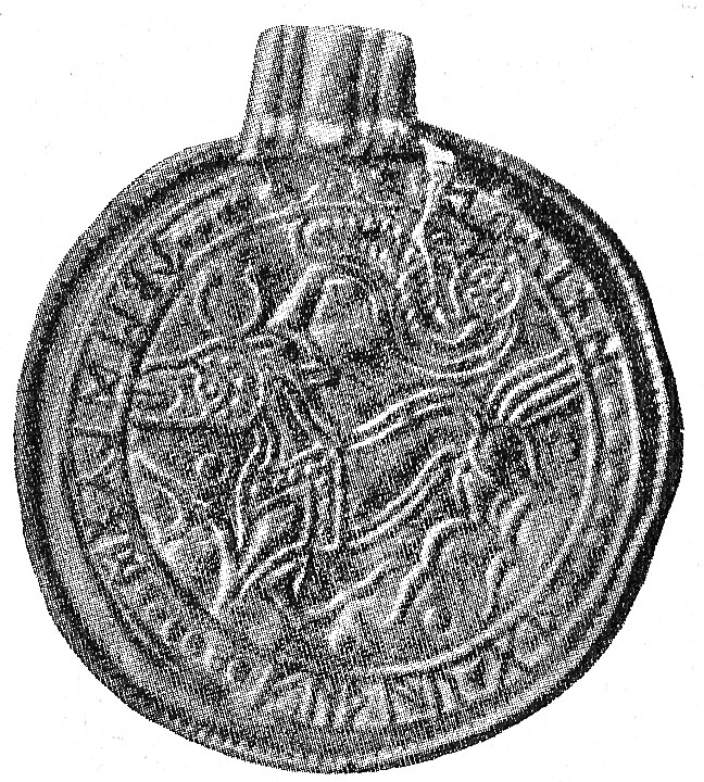 The Grumpan bracteate from Grumpan, Sävare parish, Kinnefjärding hundred, Lidköping municipality, former Skaraborg county, Västergötland, Västra Götaland county, Sweden.